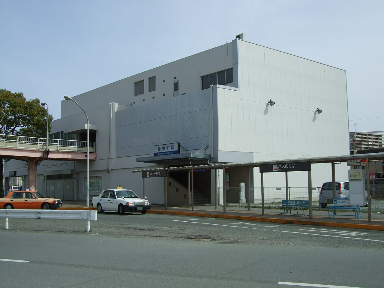 Shin-Sakaemachi Station, Nishitetsu Tenjin Omuta Line.